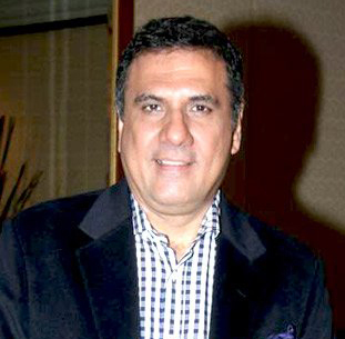 Boman Irani becomes the Brand Ambassador of the NGO 'AHEAD'